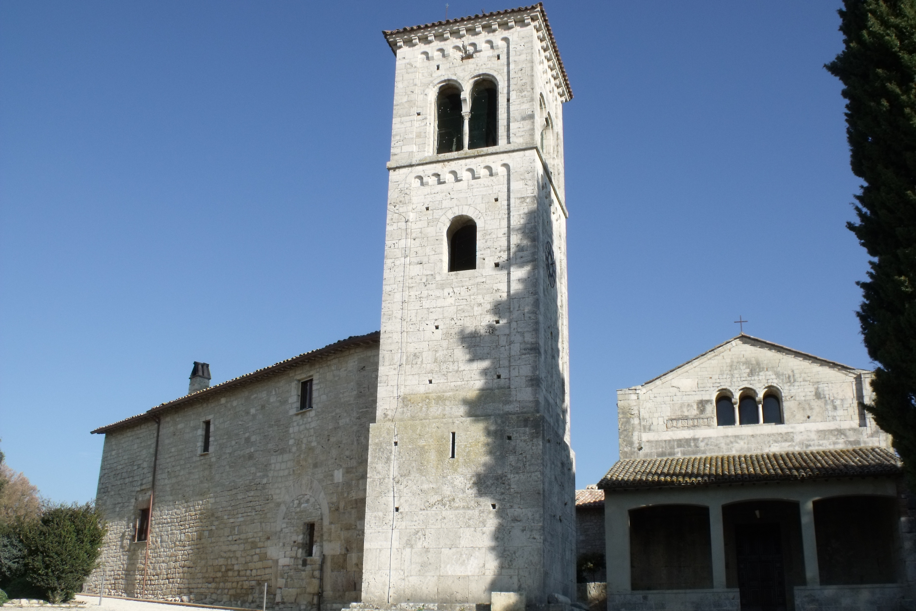 Abbadia di San Faustino in Villa San Faustino, Municipality of Massa Martana, Province of Perugia, Umbria, Italy